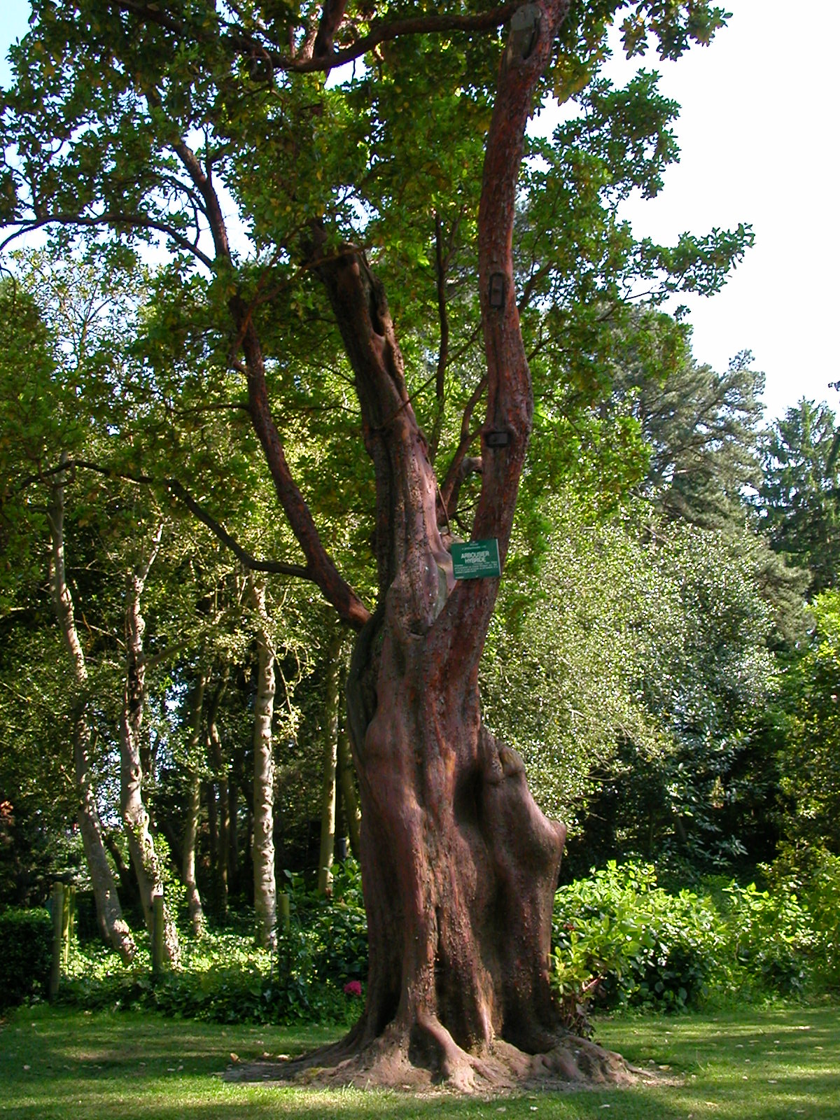 Strawberry tree in the Jardin des plantes in Nantes